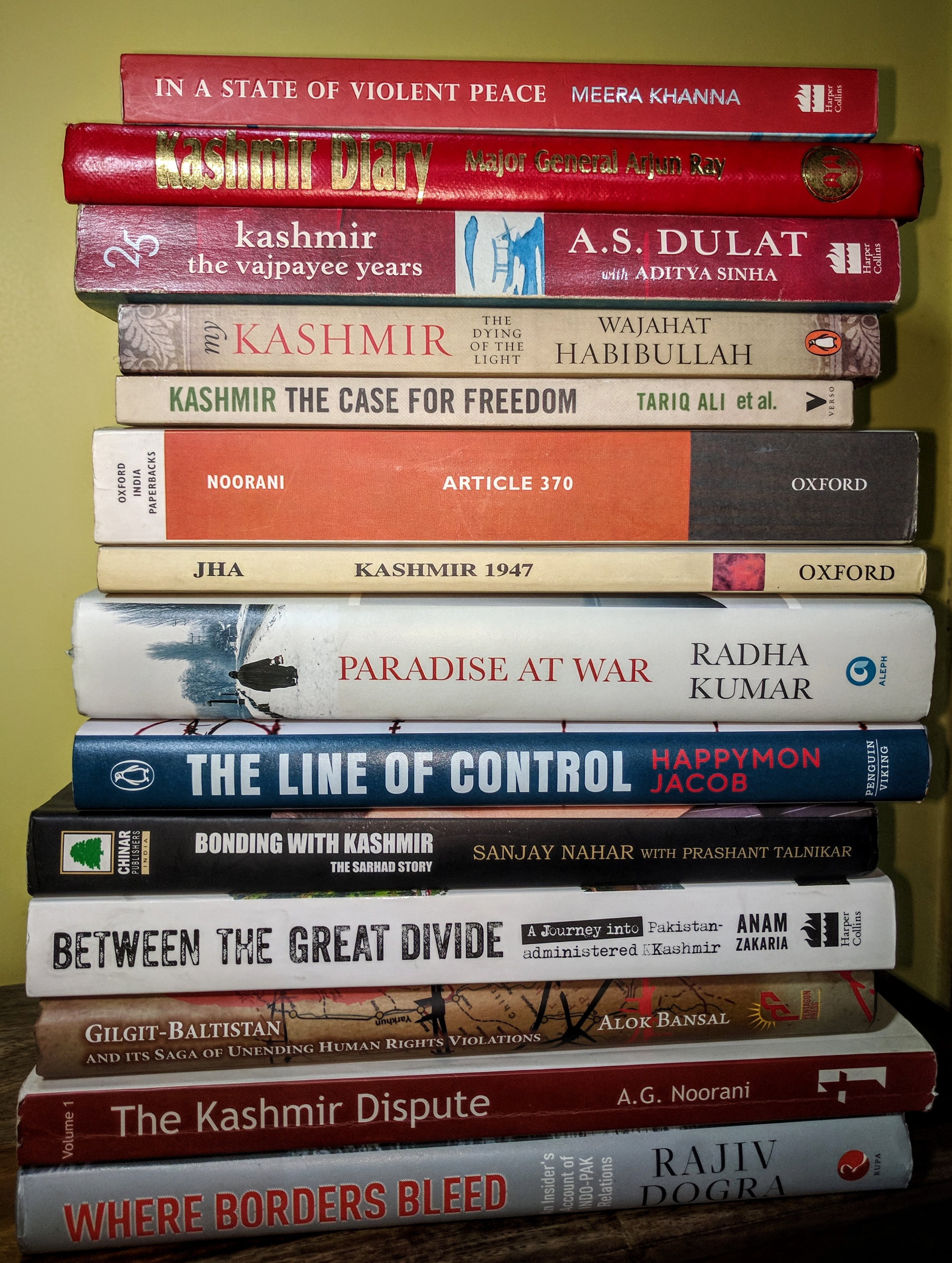 A pile of books on Kashmir